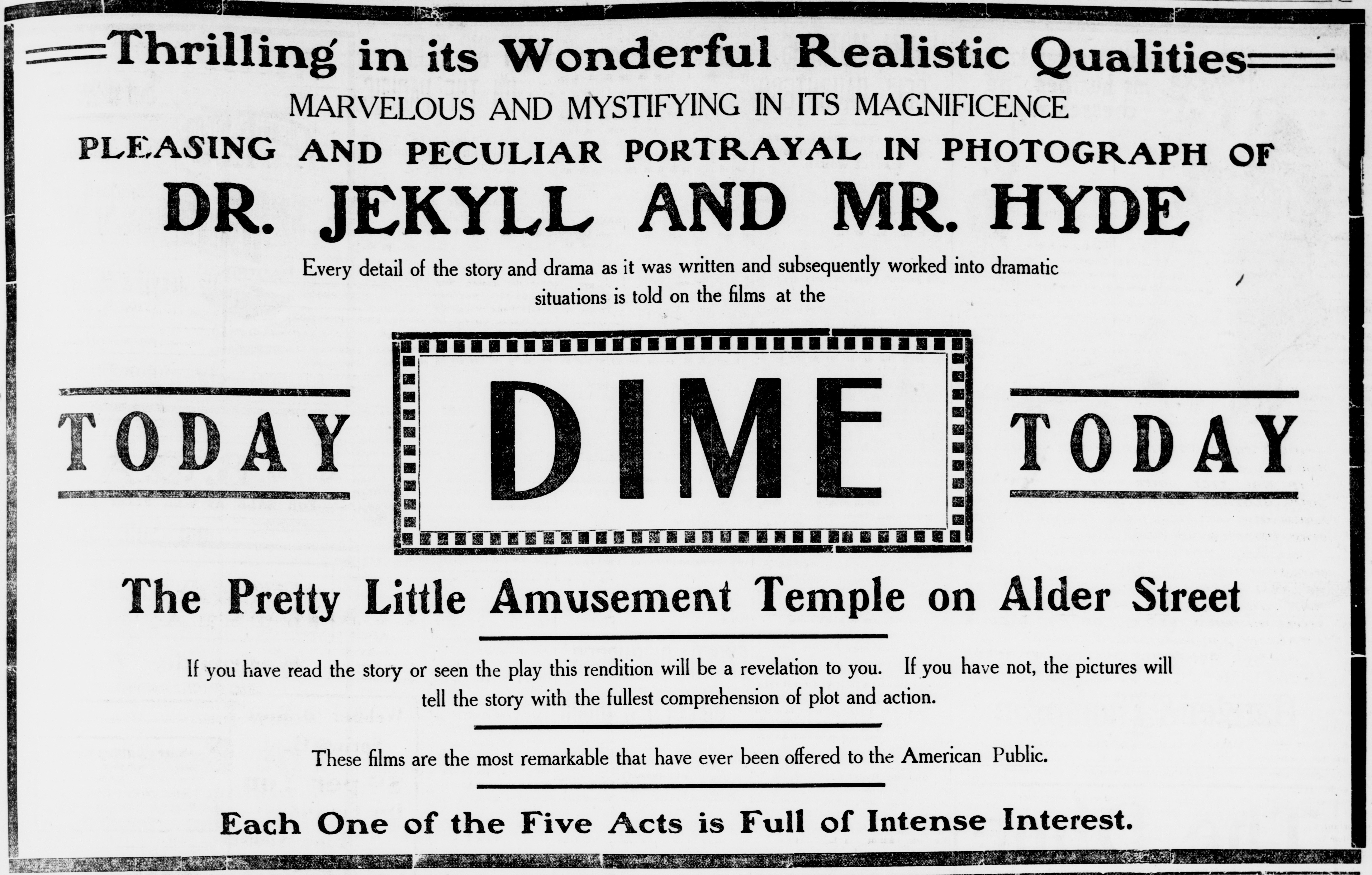 r. Jekyll and Mr. Hyde was a lost film 1908 Selig Polyscope Company silent horror starring Hobart Bosworth, and Betty Harte in her film debut. this is a newspaper advertisement for the film.